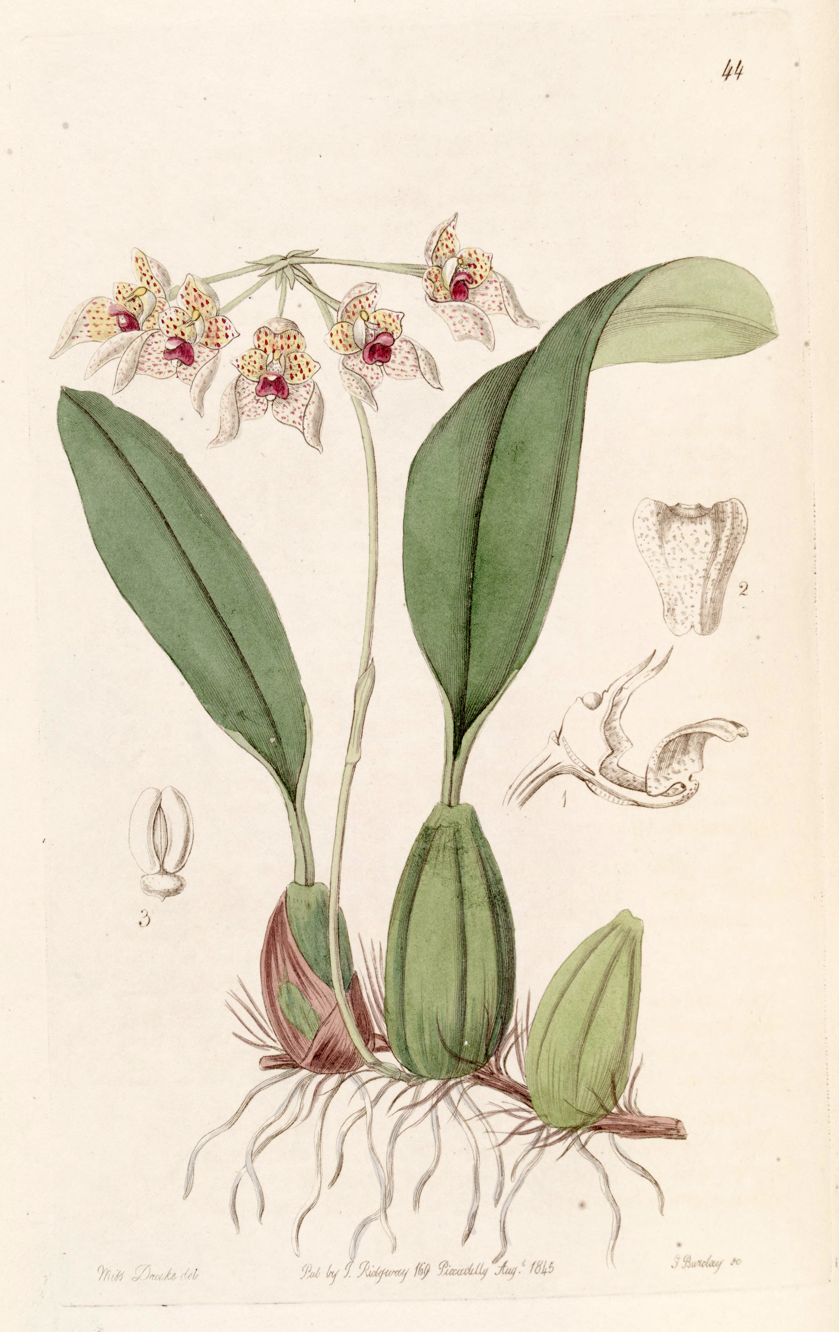 Bulbophyllum umbellatum (spelled Bolbophyllum umbellatum)